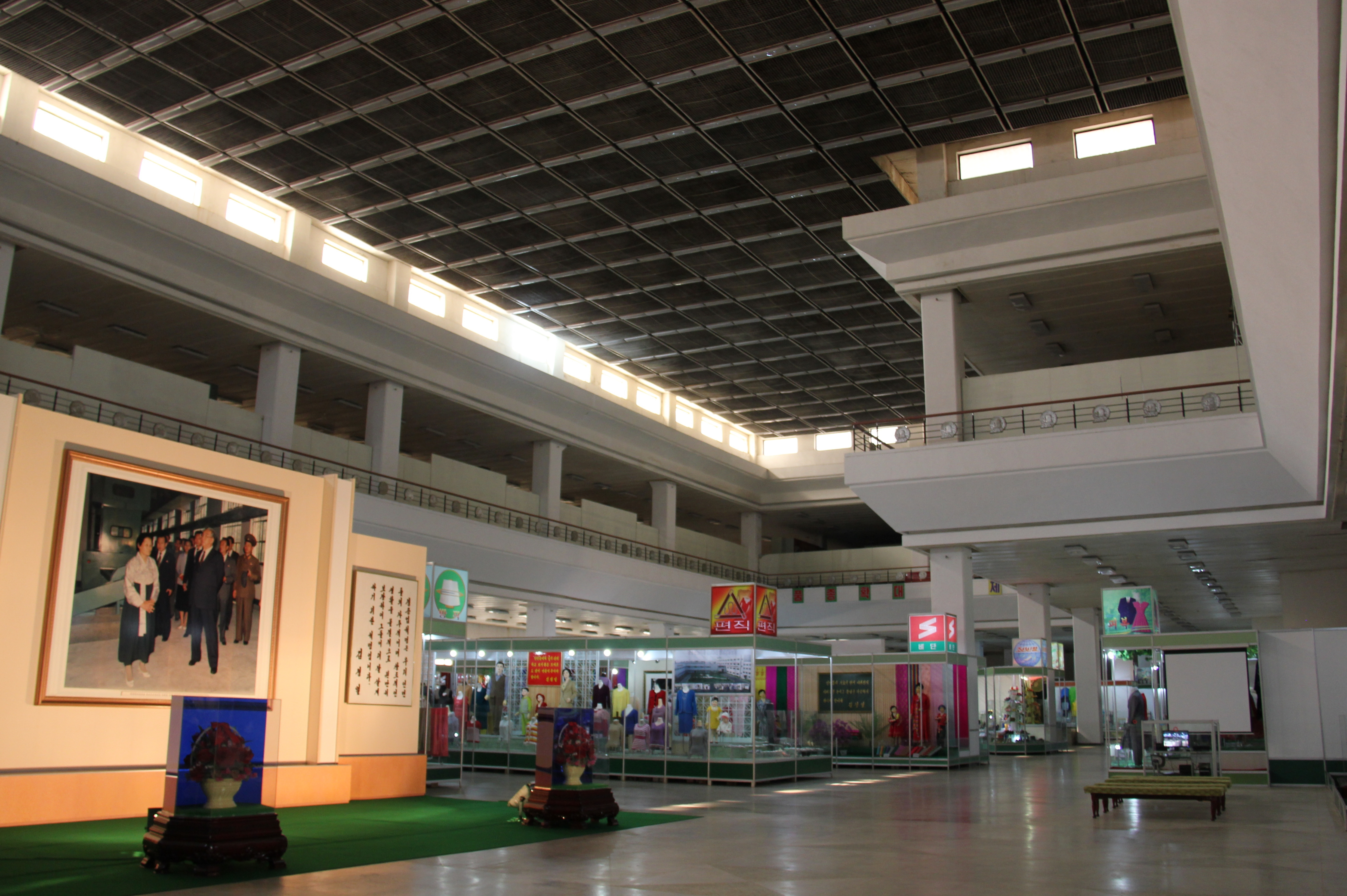 The consumer goods section!